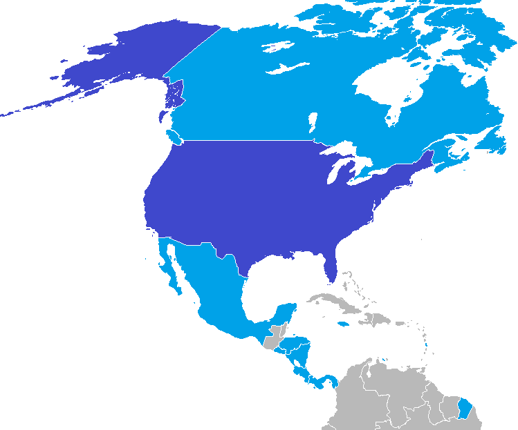 Map of the countries classified to the Concacaf Gold Cup 2017.